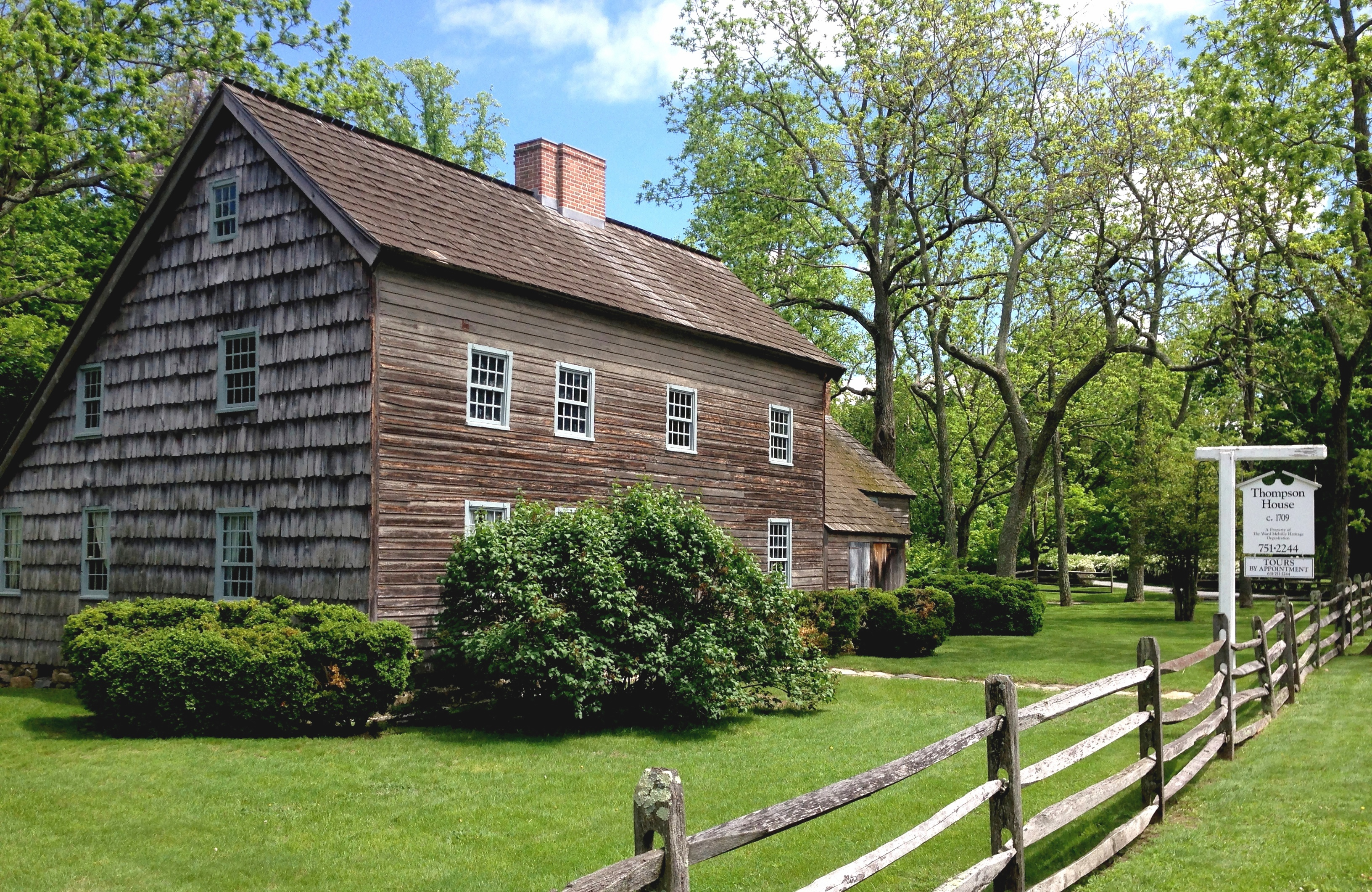 The Thompson House on North Country Road in Setauket, New York. The house dates to 1709 and is listed on the National Register of Historic Places.